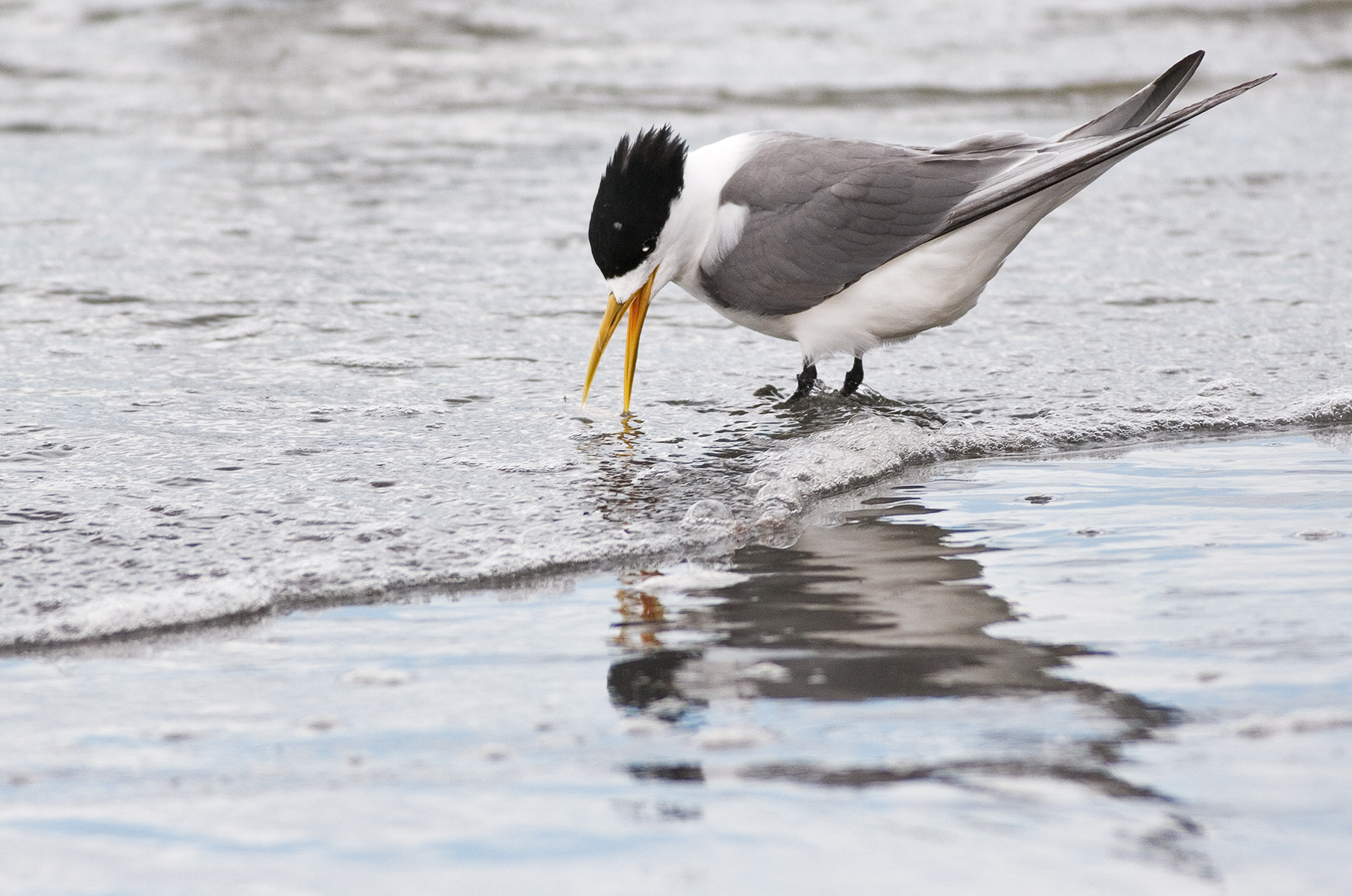 Greater Crested Tern Thalasseus bergii, Adventure Bay, Bruny Island, Tasmania, Australia